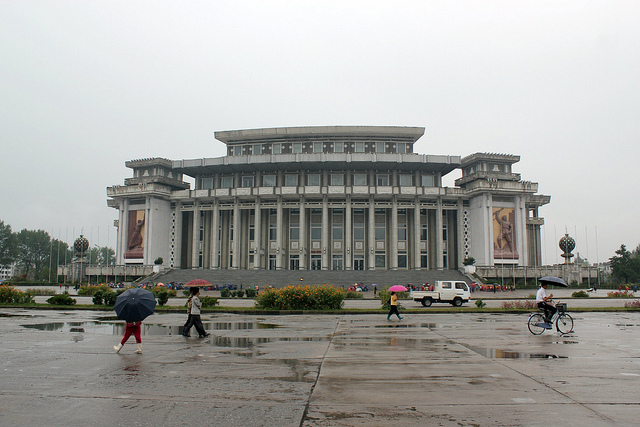 The Hamhung Grand Theatre is the largest theater in North Korea.